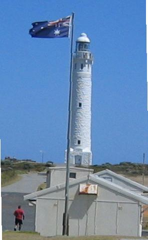 Cape Leeuwin lighthouse, Western Australia.